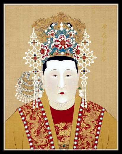 Portrait of Empress Xiaogong of Ming Dynasty China